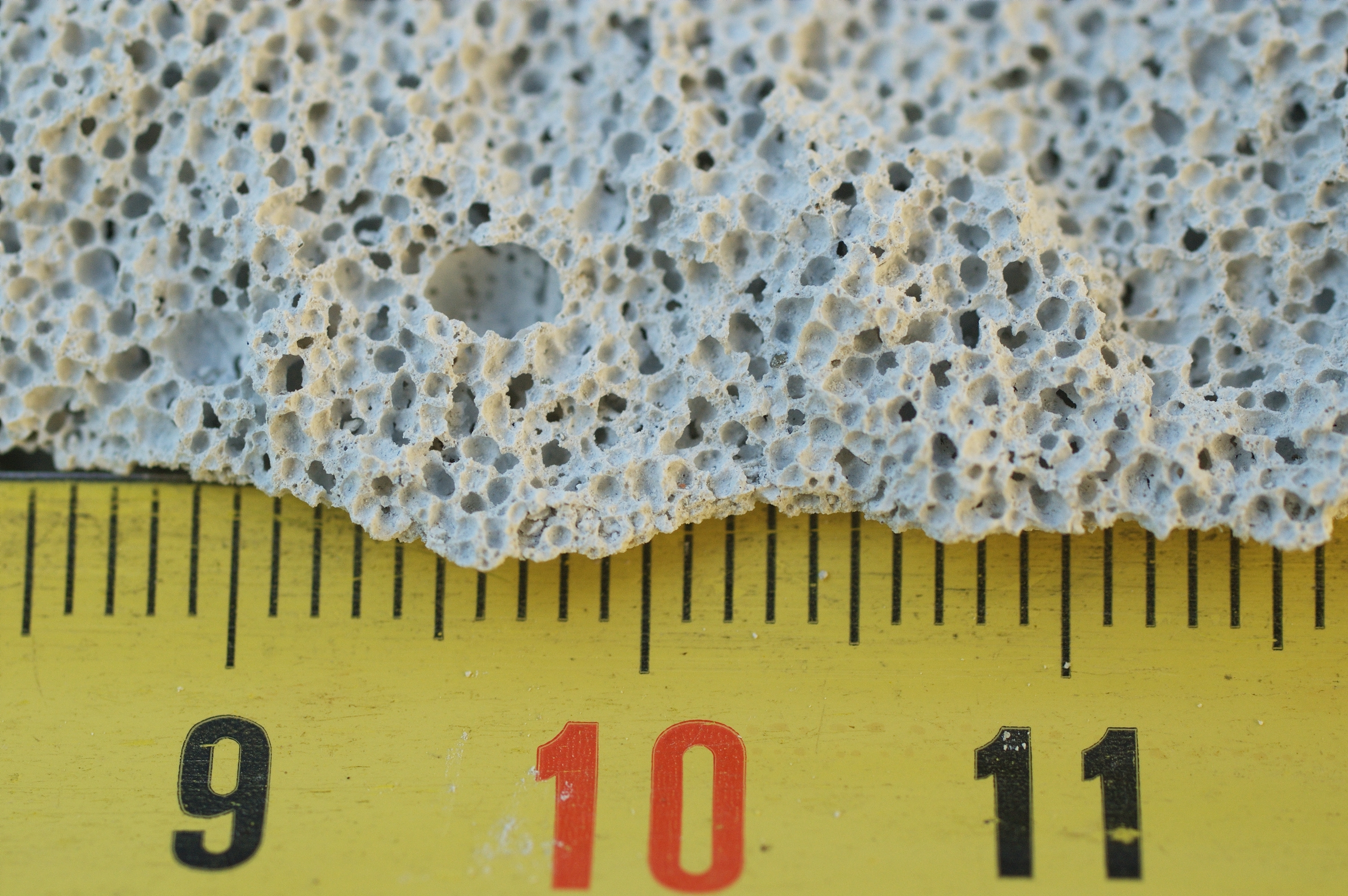 Macro detail of aerated autoclaved concrete.